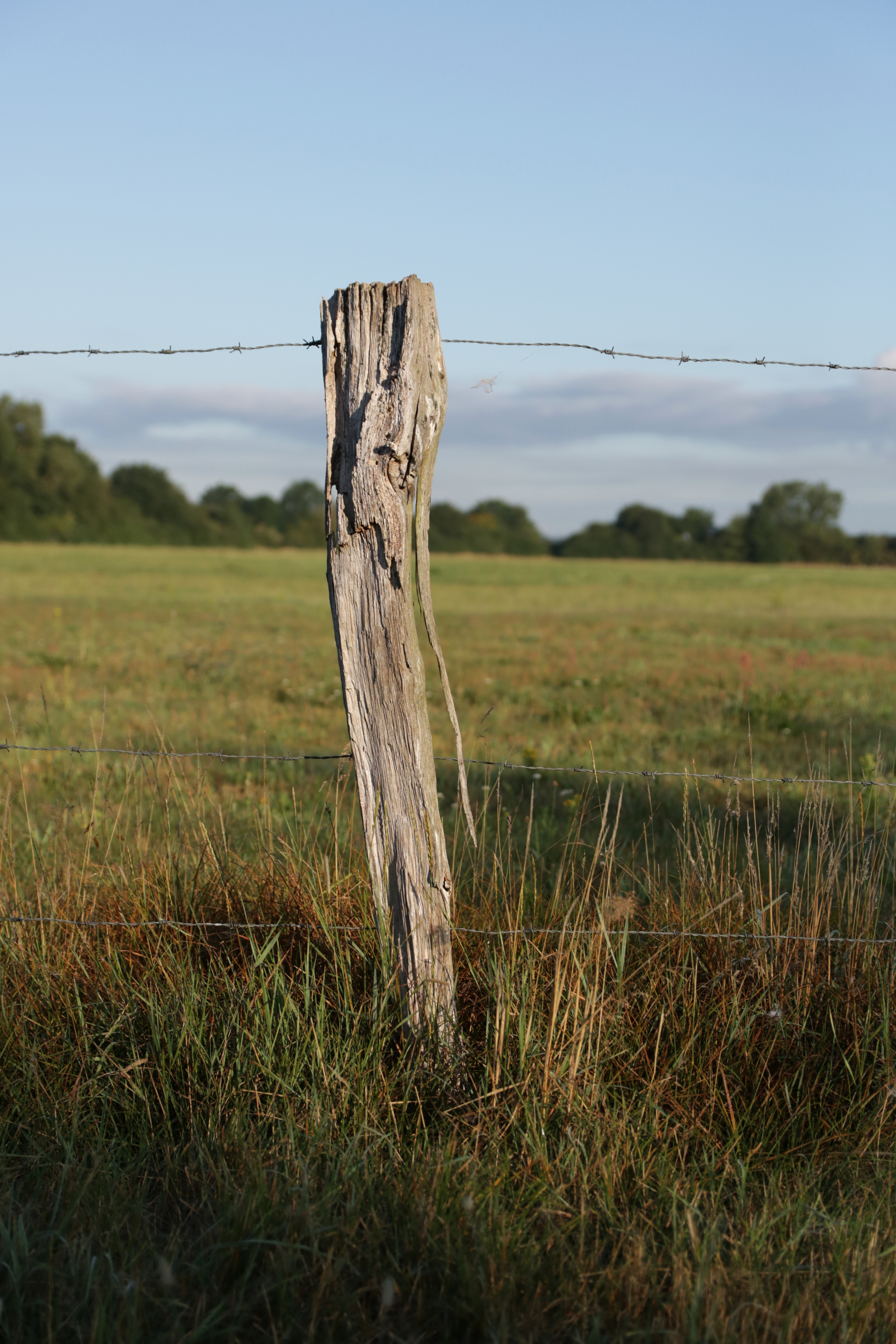 oak willow post